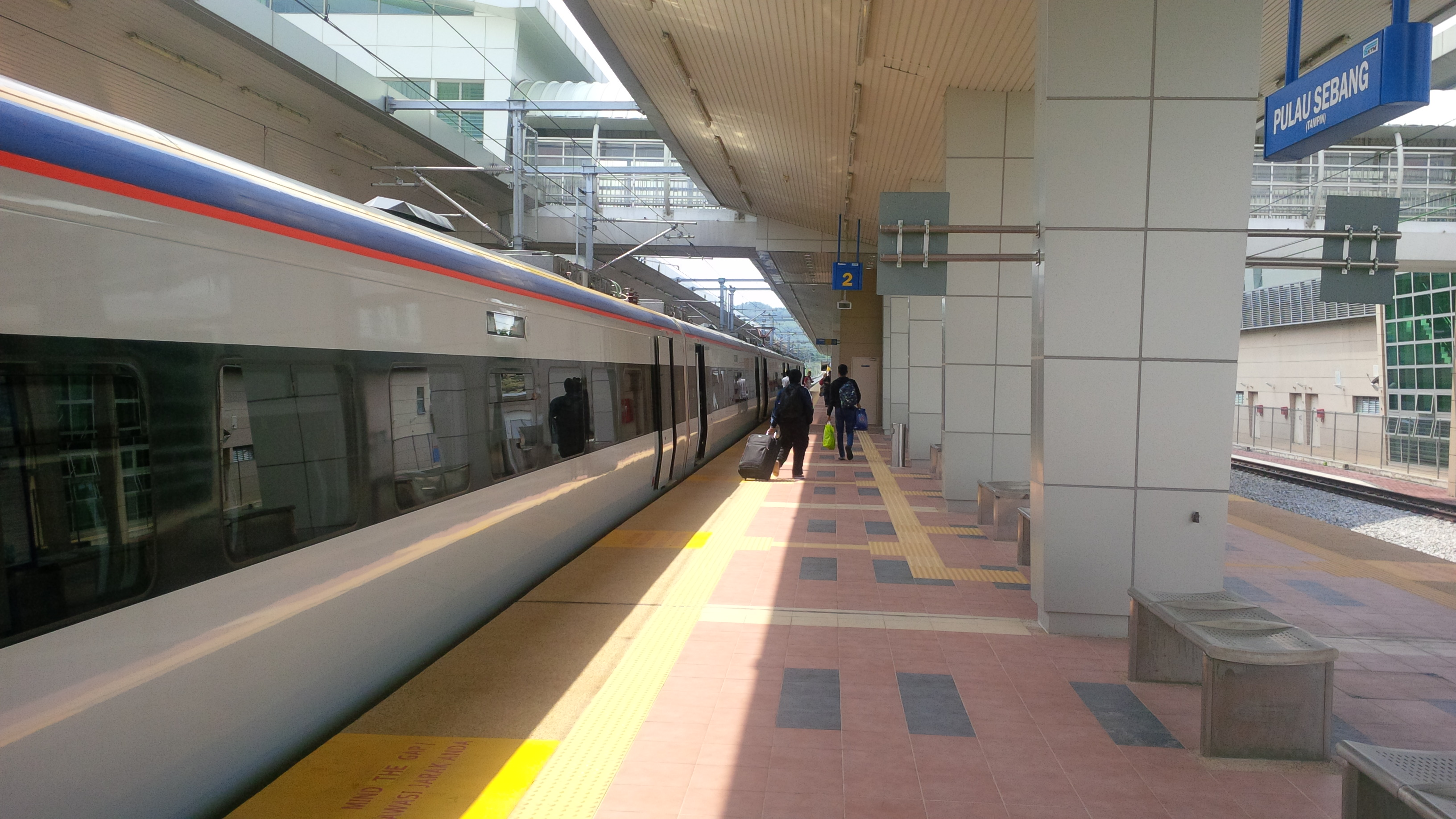 The KTM Class 93 ETS train No 203 stopping at Pulau Sebang/Tampin Station after arriving from Seremban.